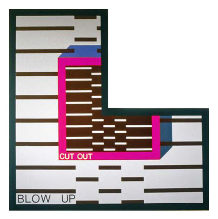 Description = Painting. Enamels on canvas.Size: 180x180cm. Date = Created Summer 1989 Source = Author = Slobodan Sajin AUX MANIR Slobodan Sajin 20:13, 7 September 2006 (UTC)AuxManir